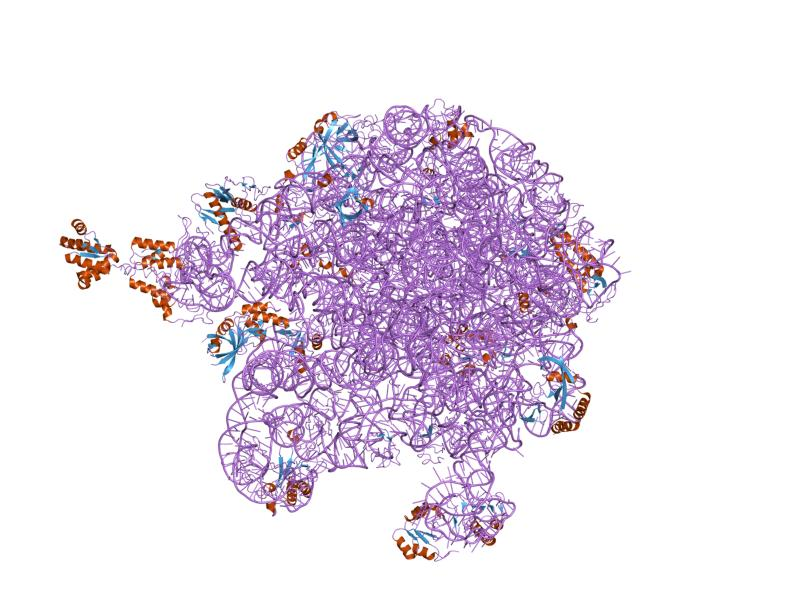 Cartoon representation of the molecular structure of protein registered with 2gya code.